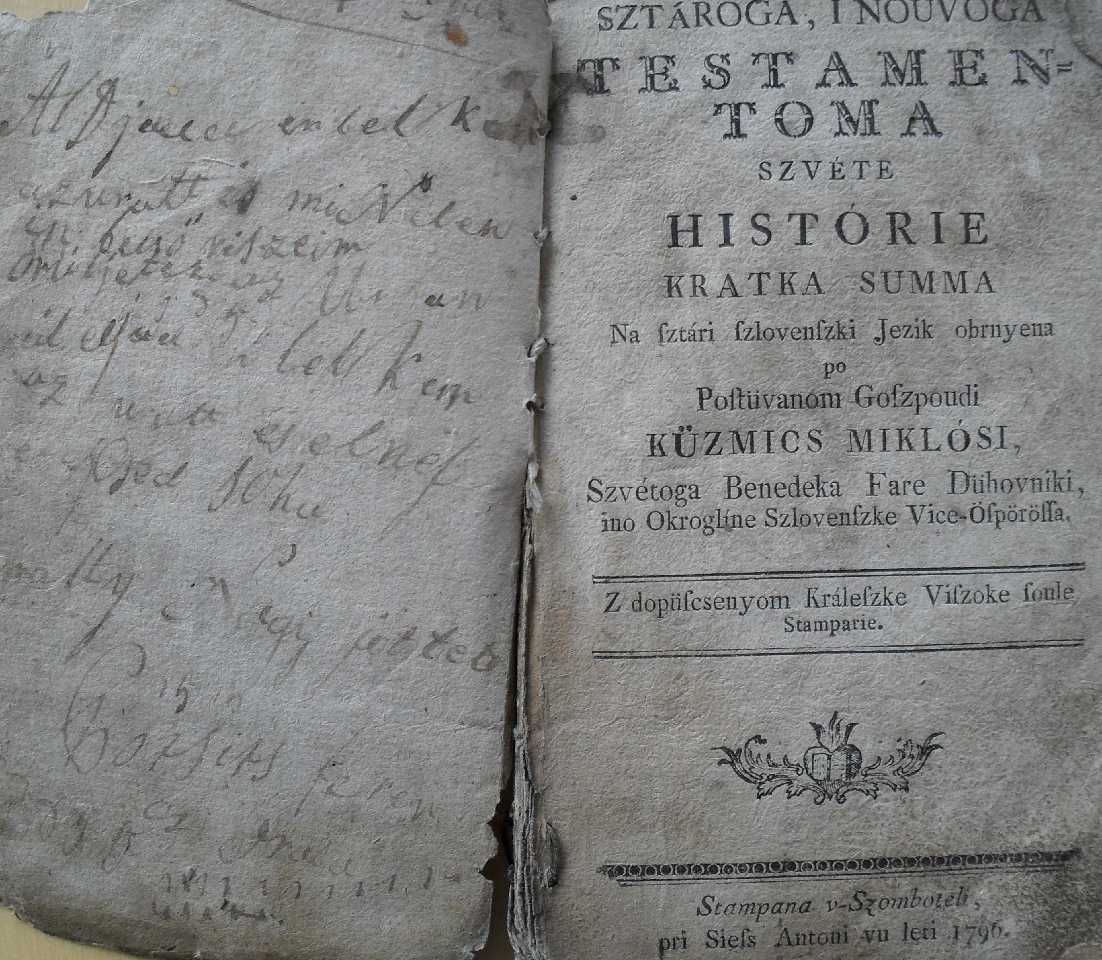 The first issue of the prekmurian Sztároga i Nouvoga Testamentoma szvéte histórie krátka Summa (Small tenet of the holy historys of the Old and New Testament) in 1796. By Miklós Küzmics.